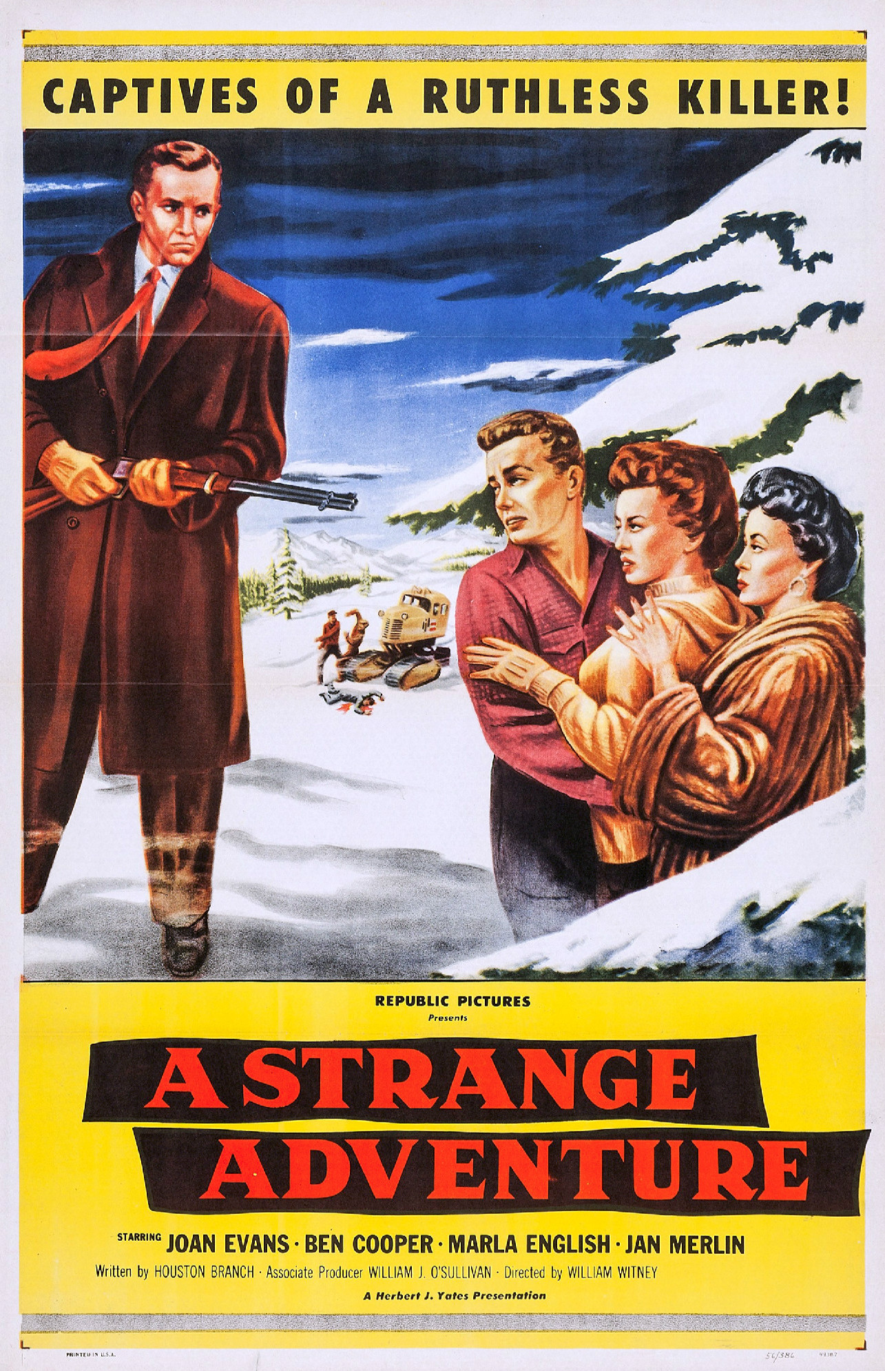 Poster for the 1956 film A Strange Adventure. There are no copyright marks. At bottom is Printed in USA and 56/386 49387.